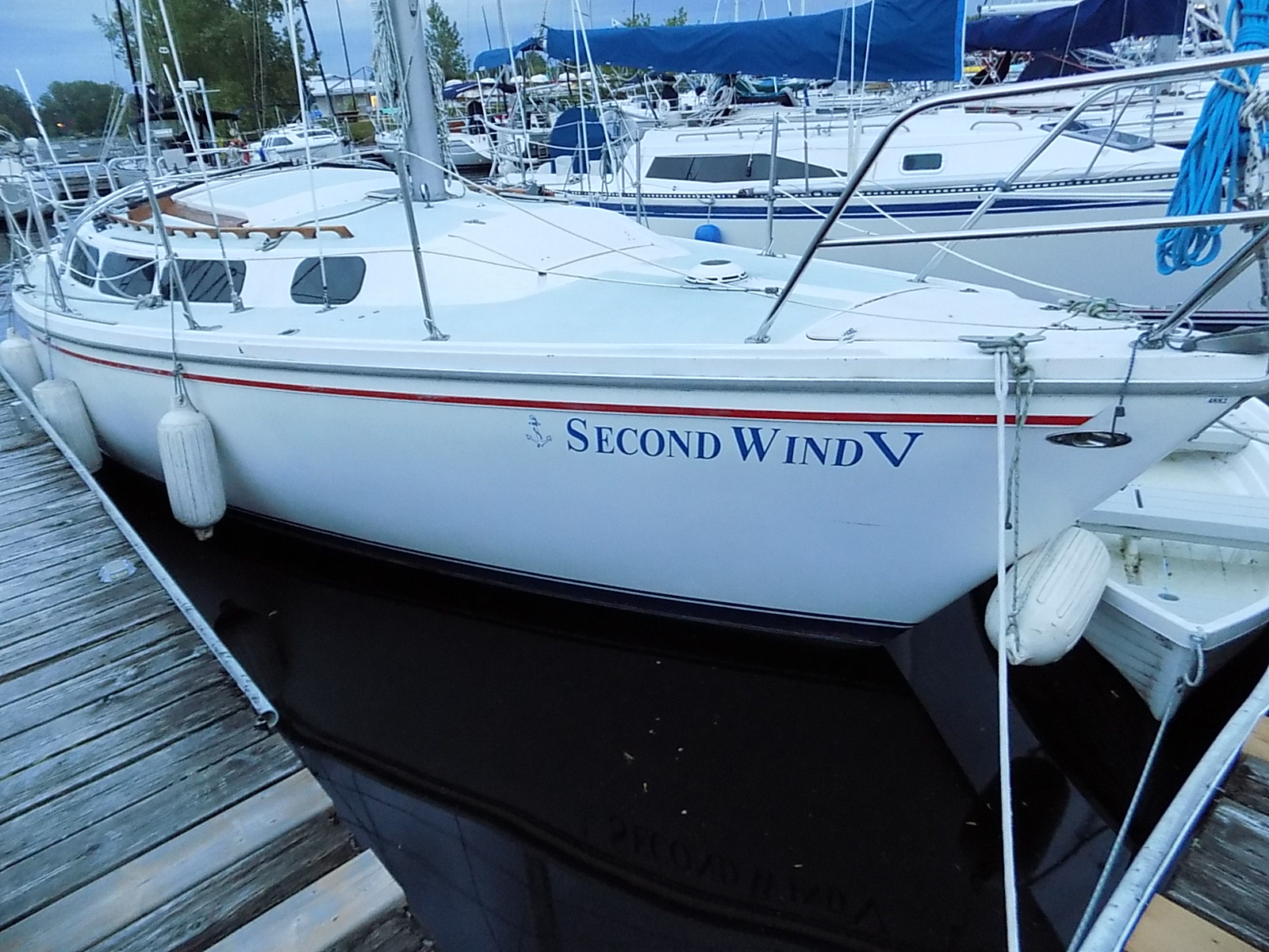 A Catalina 30 sailboat named Second Wind V.